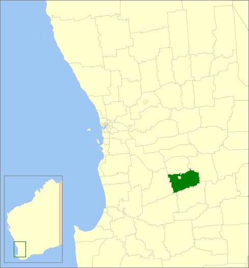 Description=Location of the Local Government Area in Western Australia